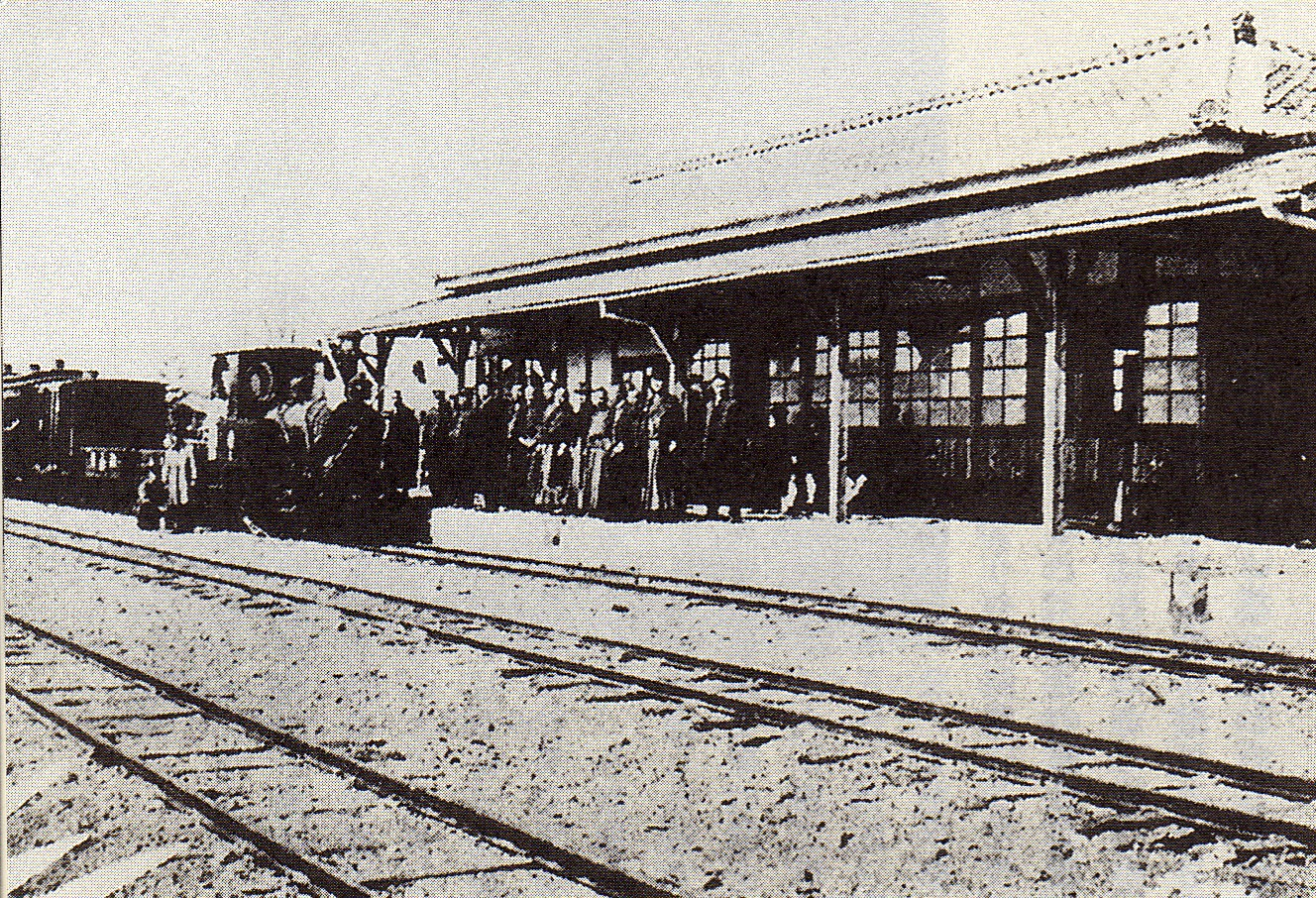 Opening ceremony of Akou Railway at Banshu-Akou station.